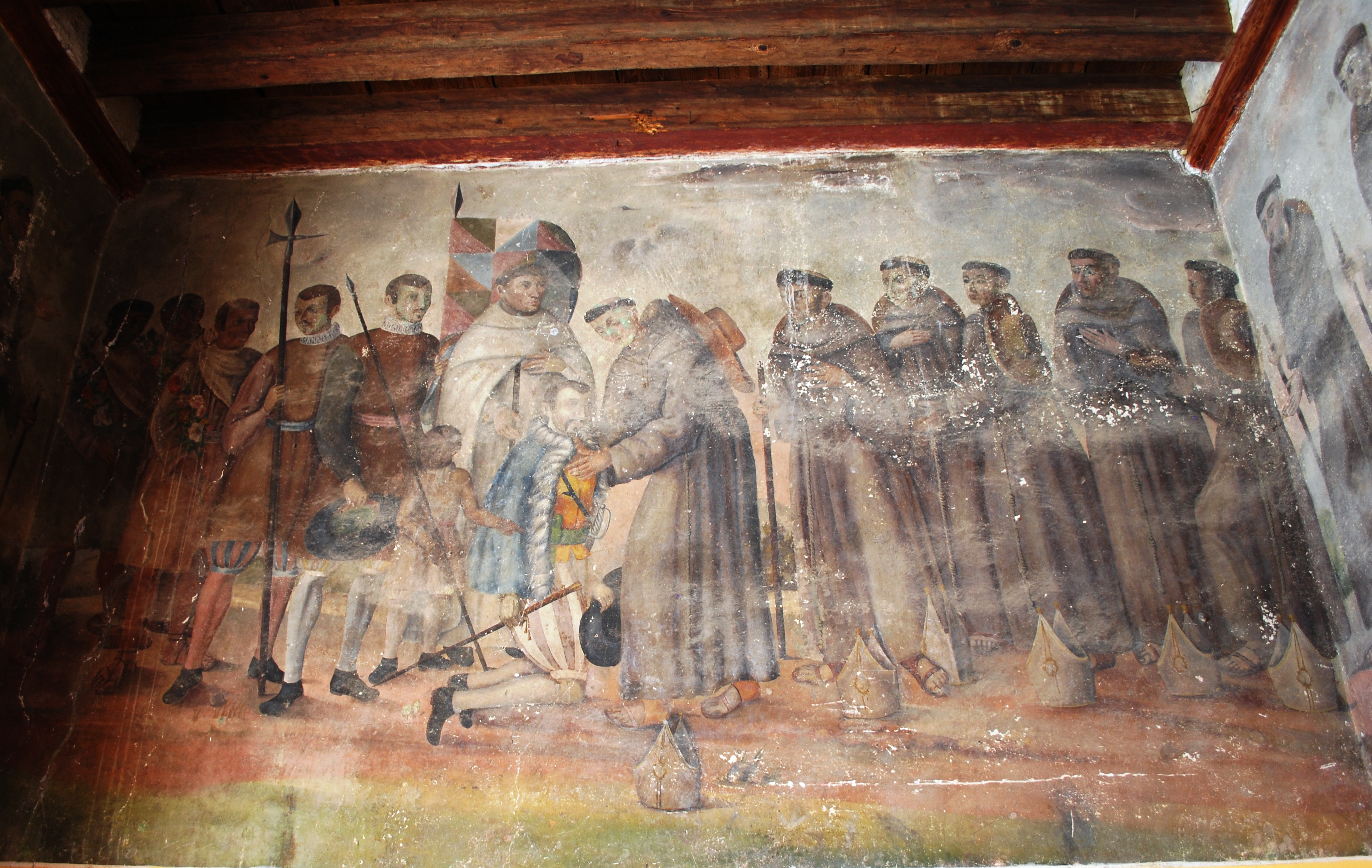 Mural depicting Hernan Cortes greeting the first 12 Franciscan monks in Tenochtitlan. by unknown author from the 16th century. At the Immaculate Conception Church in Ozumba, Mexico State